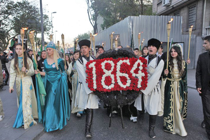 Circassians commemorate the banishment of the Circassians from their homeland (today in Russian territory) in Taksim, İstanbul